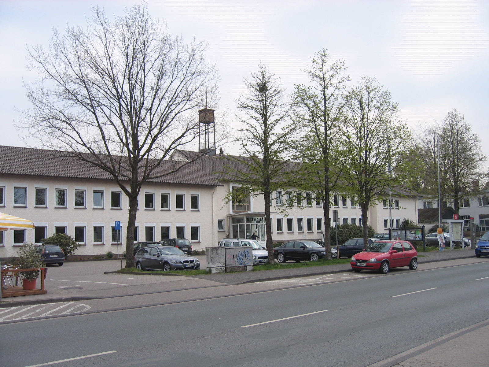 Spenge, District of Herford, North Rhine-Westphalia, Germany.